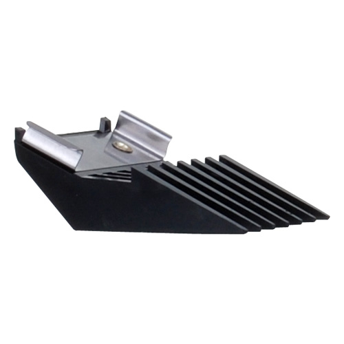 Een foto van een opzetstuk voor een Tondeuse.